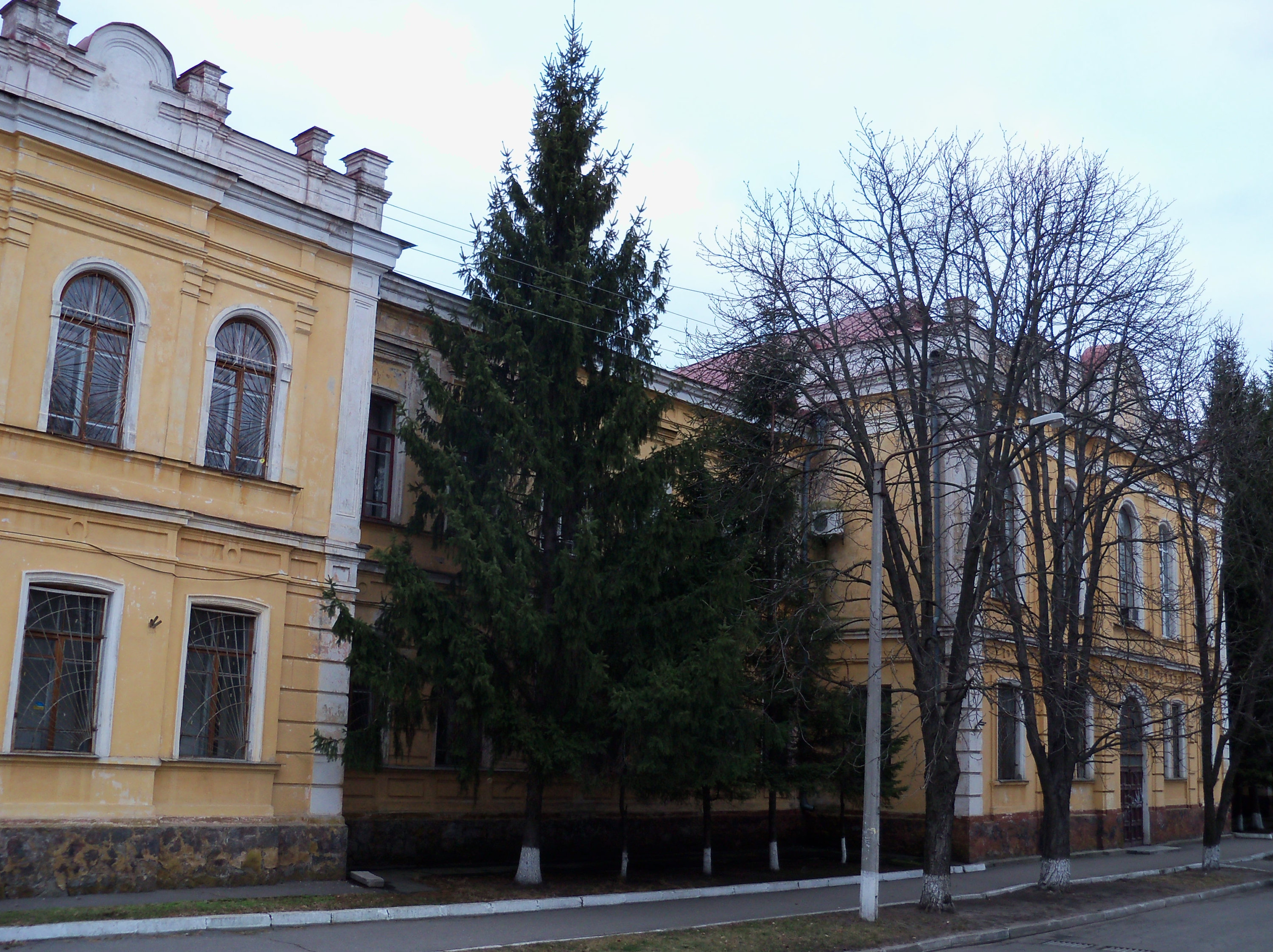 Olexandrivske attended high school in Kremenchuk